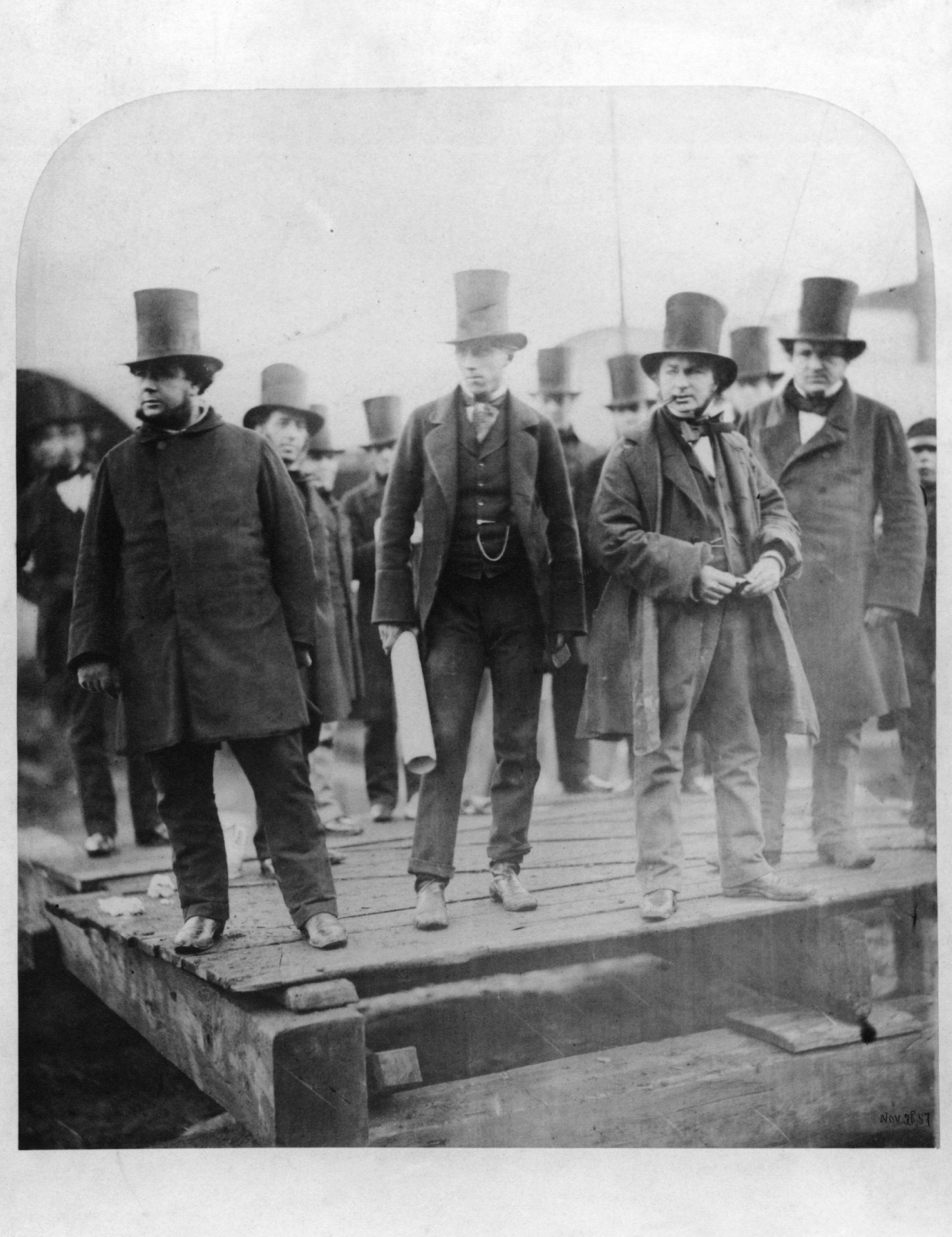 Isambard Kingdom Brunel preparing the launch of 'The Great Eastern, by Robert Howlett (died 1858). All images in this batch have been confirmed as author died before 1939 according to the official death date listed by the NPG.